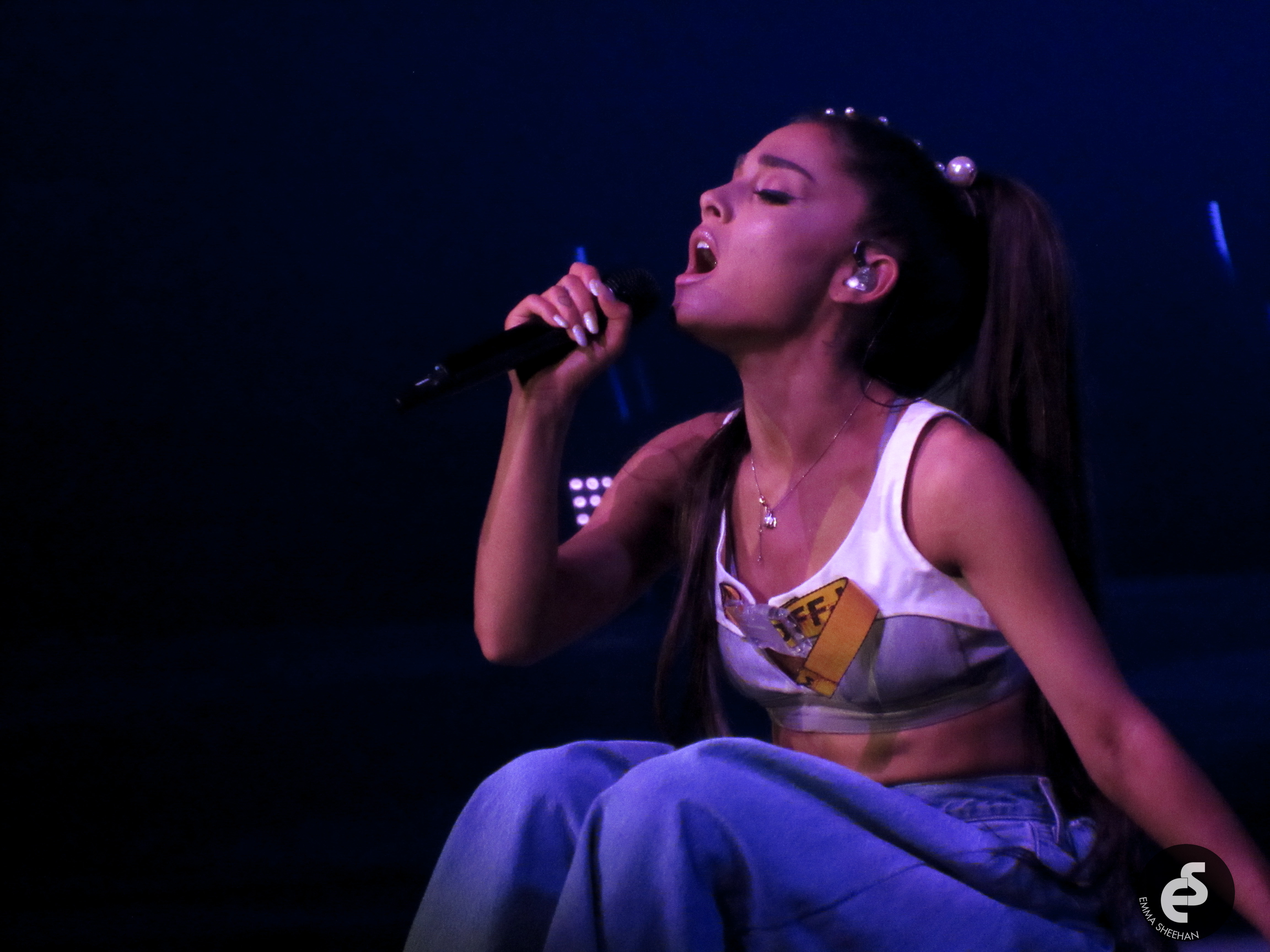 Dangerous Woman Tour 2/19/17 Ariana Grande performing during Dangerous Woman Tour in Manchester, New Hampshire, SNHU Arena, on February 19, 2017.